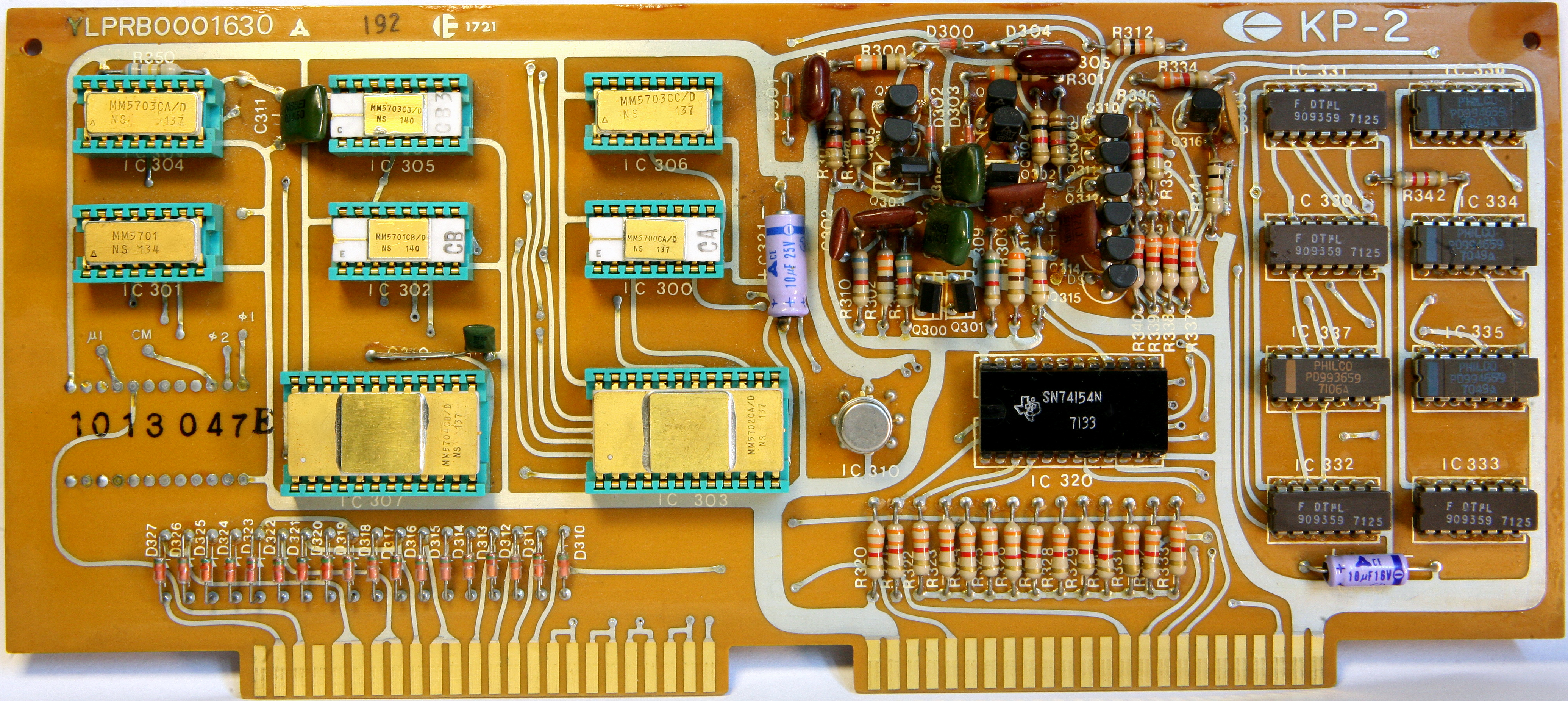 Olympia CD700 Desktop Calculator is built with the microprocessor MM5700 from National Semiconductor. The National MAPS (Microprogrammable Arithmetic Processor System) or National MM570X was a bit-serial 4-bit microcontroller system made of 5 discrete chips designed by National Semiconductor.